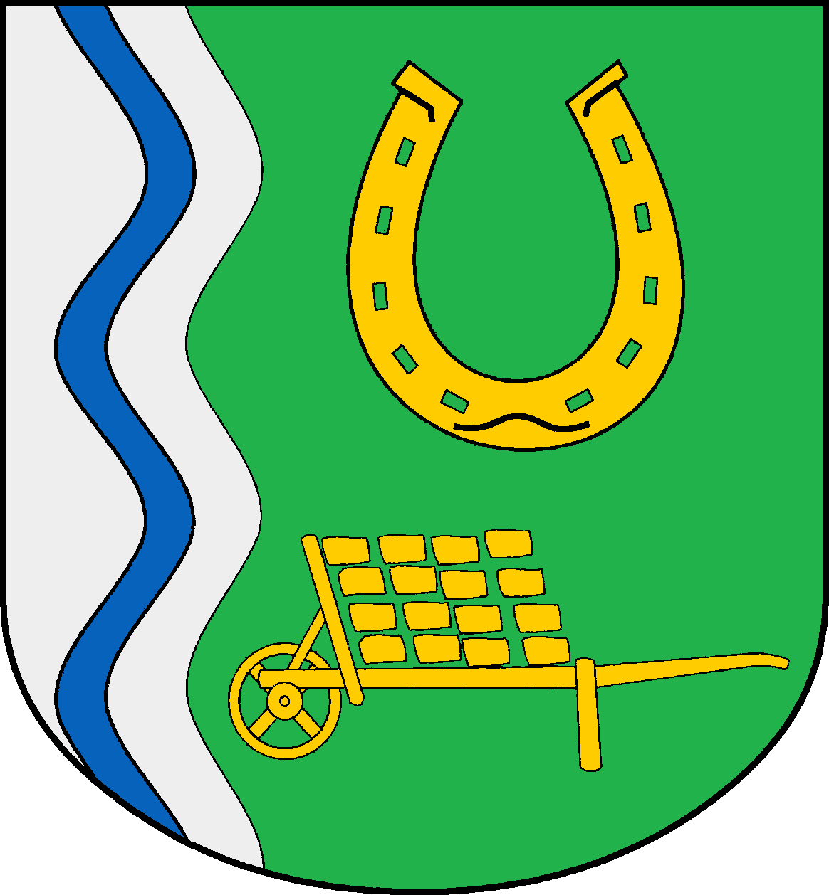 Coat of arms of the municipality Lüchow in Schleswig-Holstein, Germany.